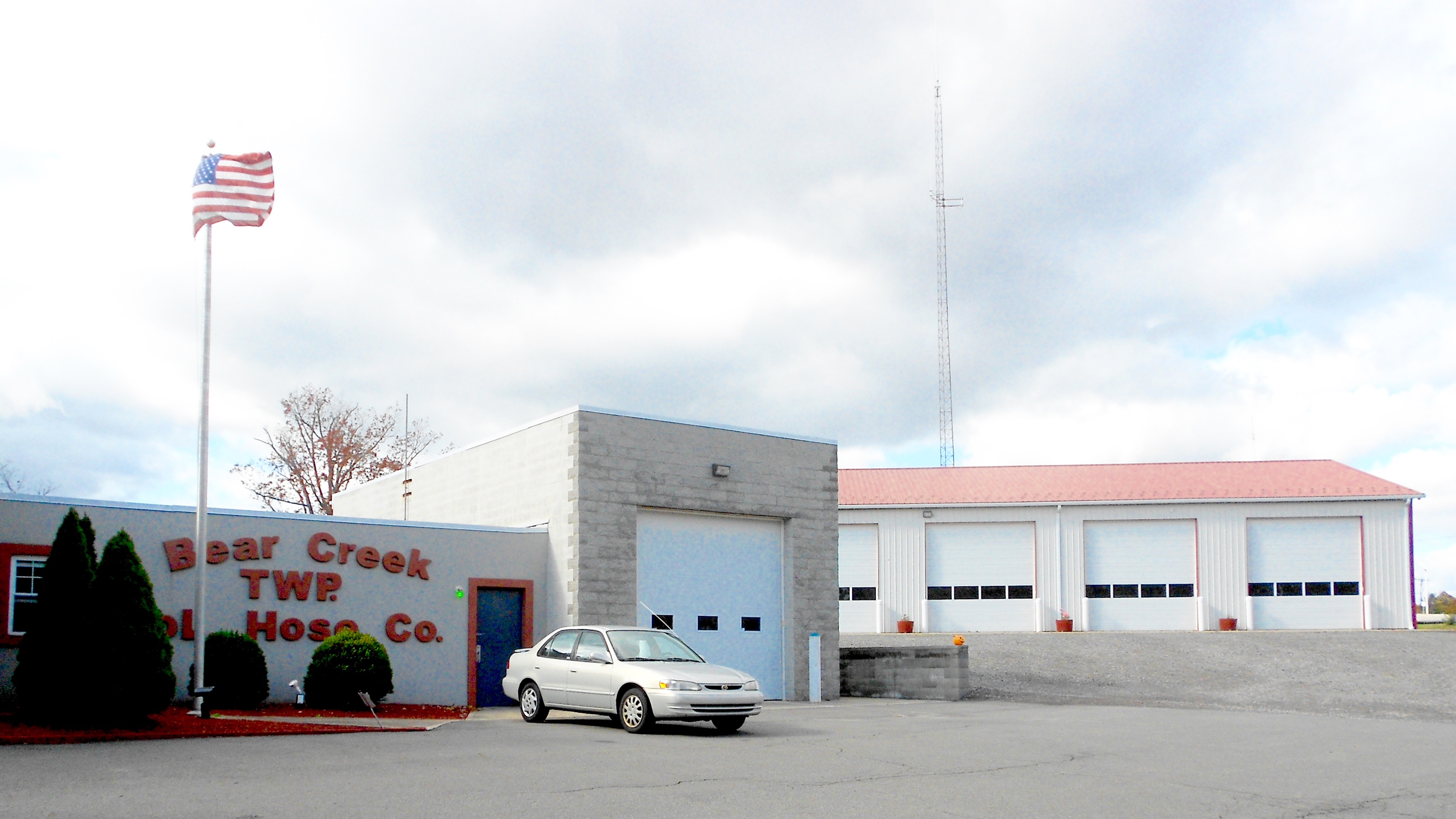 Bear Creek Township Hall and Volunteerl Hose Company